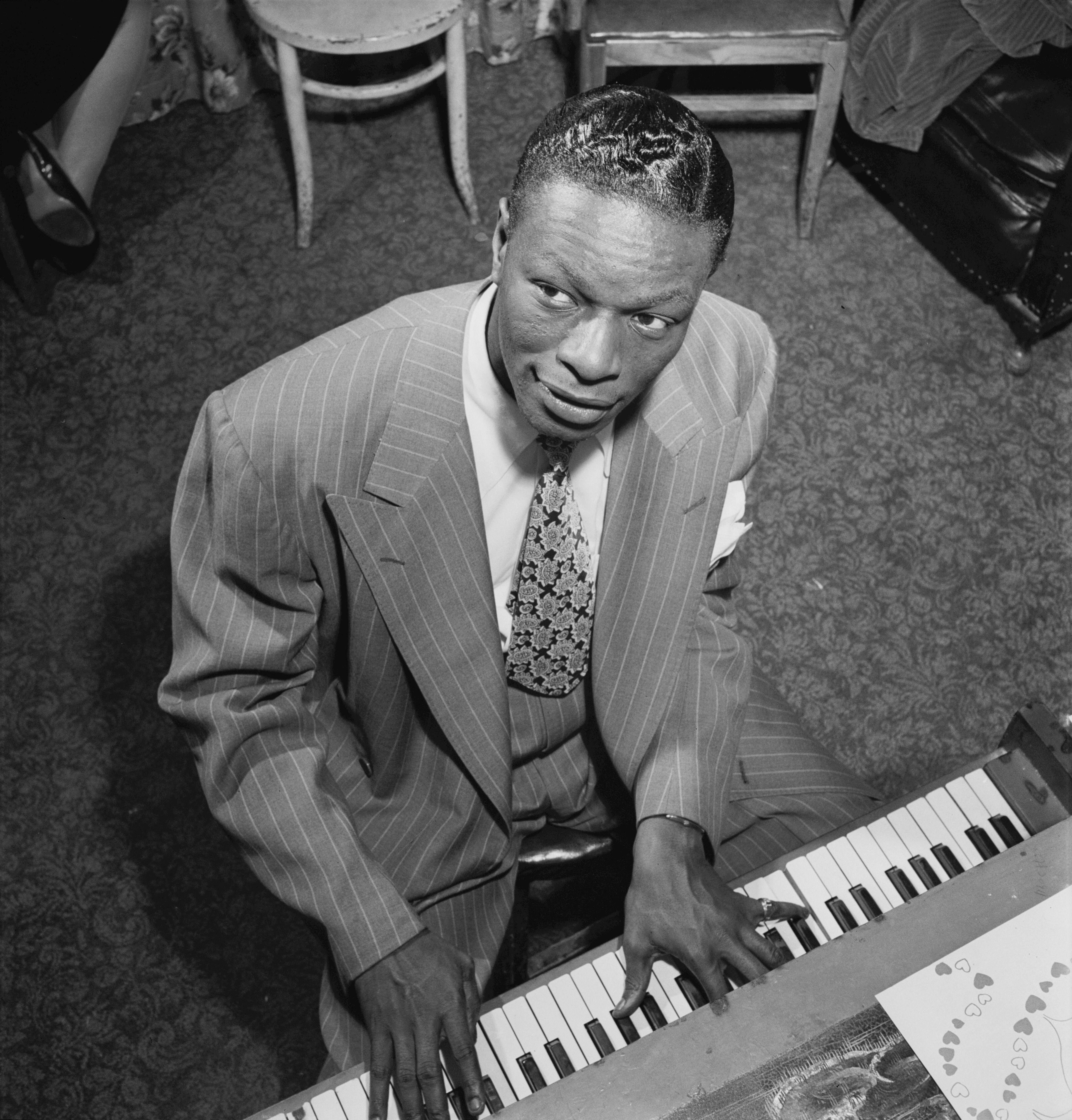 Portrait of Nat King Cole, New York, N.Y.